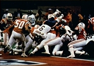 A football card from the 1986 Jeno's Pizza NFL football card stickers set of Chicago Bears quarterback Jim McMahon rushing the ball for a touchdown against the New England Patriots in Super Bowl XX. The card is numbered #11 in the set. The back of the card reads: BEARS ON THE WAY TO RECORD Chicago quarterback Jim McMahon dives into the end zone for a touchdown, as the Bears demolish the New England Patriots 46-10 in Super Bowl XX. The free-spirited McMahon also ran for another touchdown and passed for 256 yards. In winning by the largest margin in Super Bowl history, the Bears outgained the Patriots 408-123 and finished with an 18-1 record.